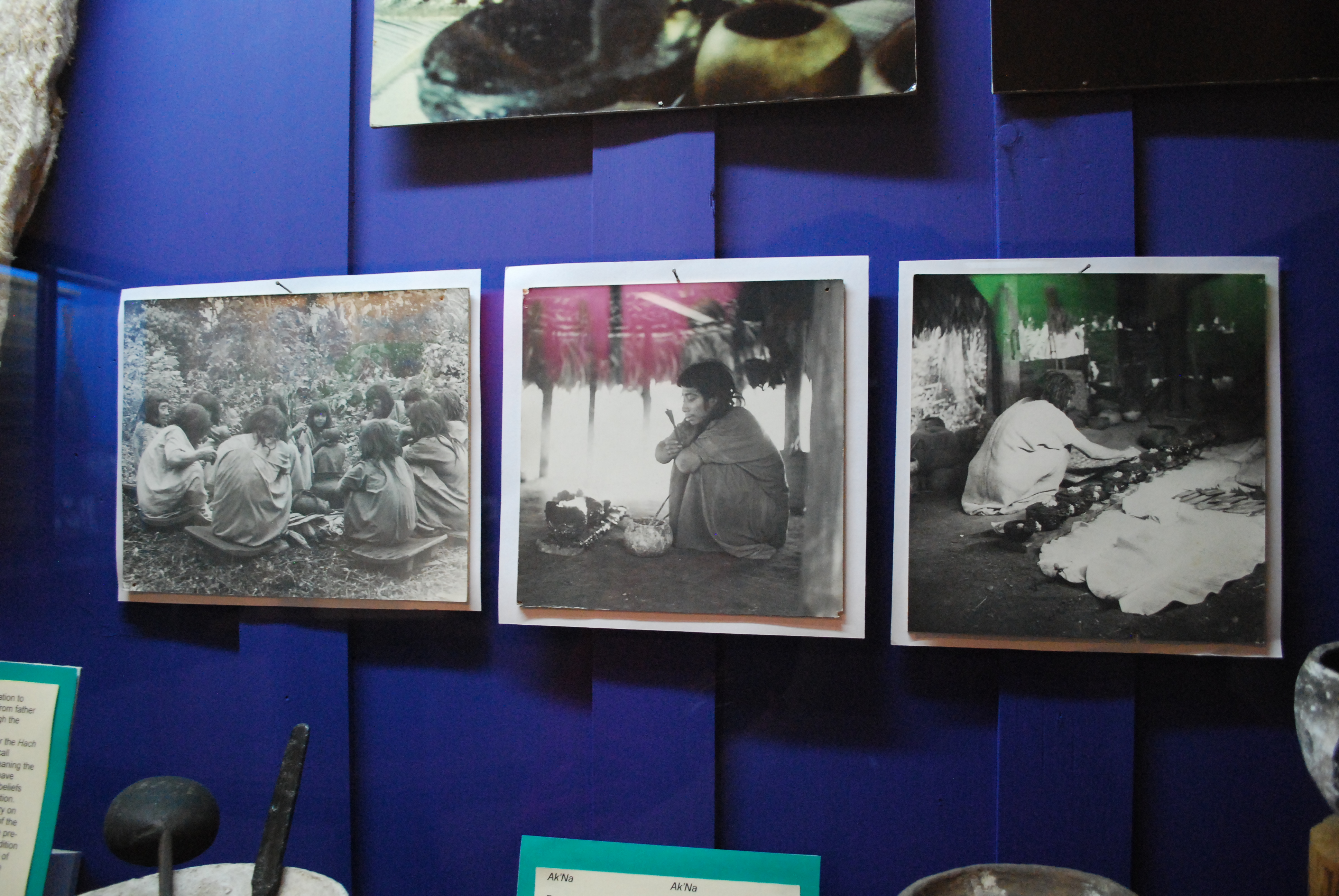 Photos of the Lacandon people taken by Trudy Blom at the Casa Na Bolom in San Cristobal de las Casas, Chiapas, Mexico